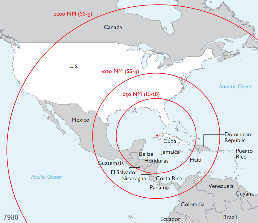 The relative ranges of the Il-28/Beagle, SS-4/Sandal, and SS-5/Skean, based on Cuba (Unclassified.) In nautical miles (NM.)